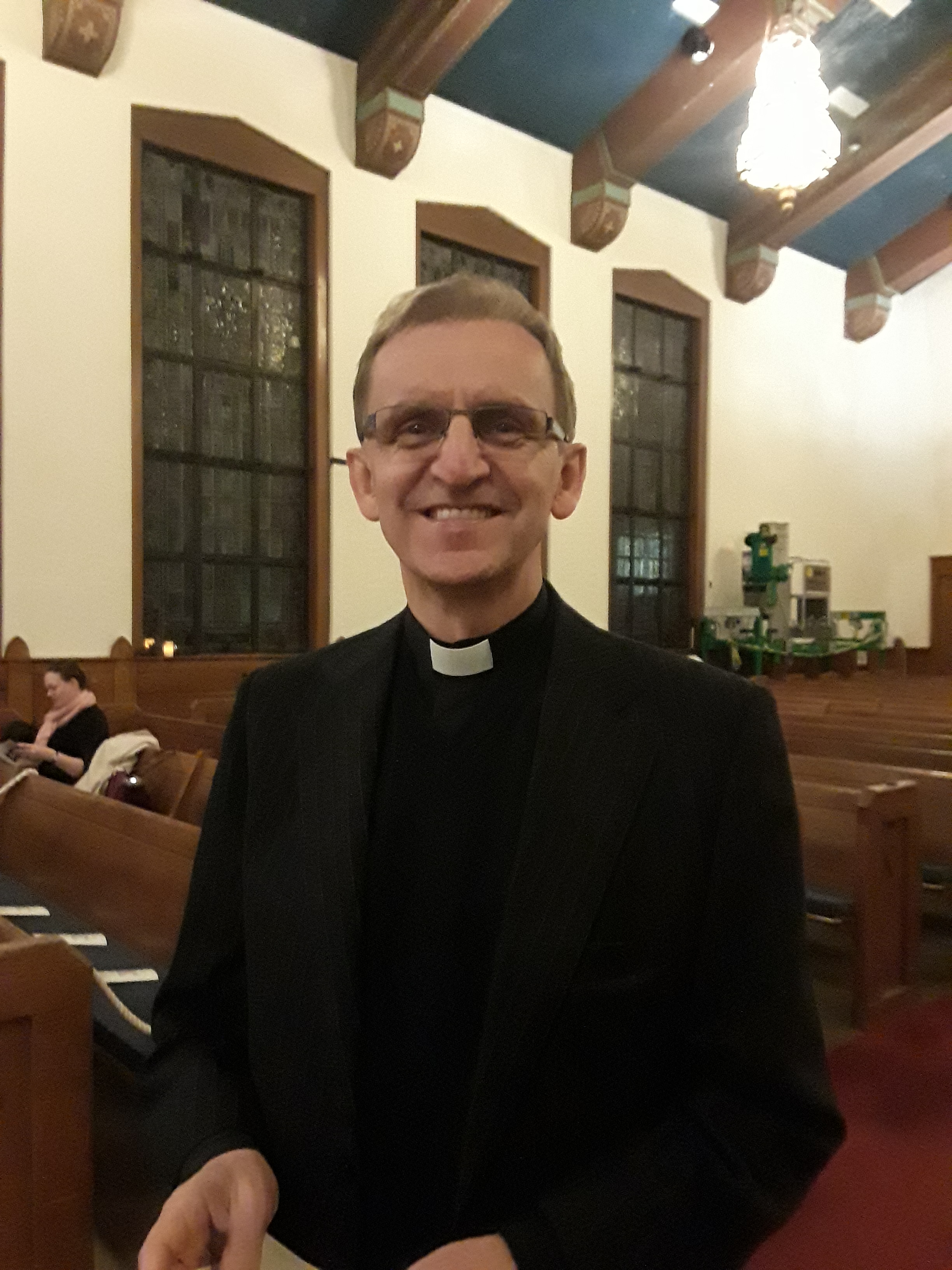 Portrait of Father Piotr Nawrot before a Capitol Hill Chorale concert of Bolivian Baroque music, December 2018